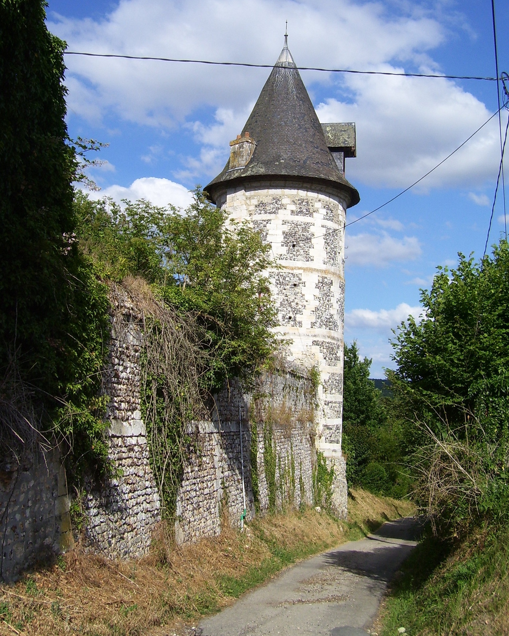 Tower of the castle in the "lieu-dit" Baronnie, that belongs to Saint-Philbert-sur-Risle in the département Eure in France.